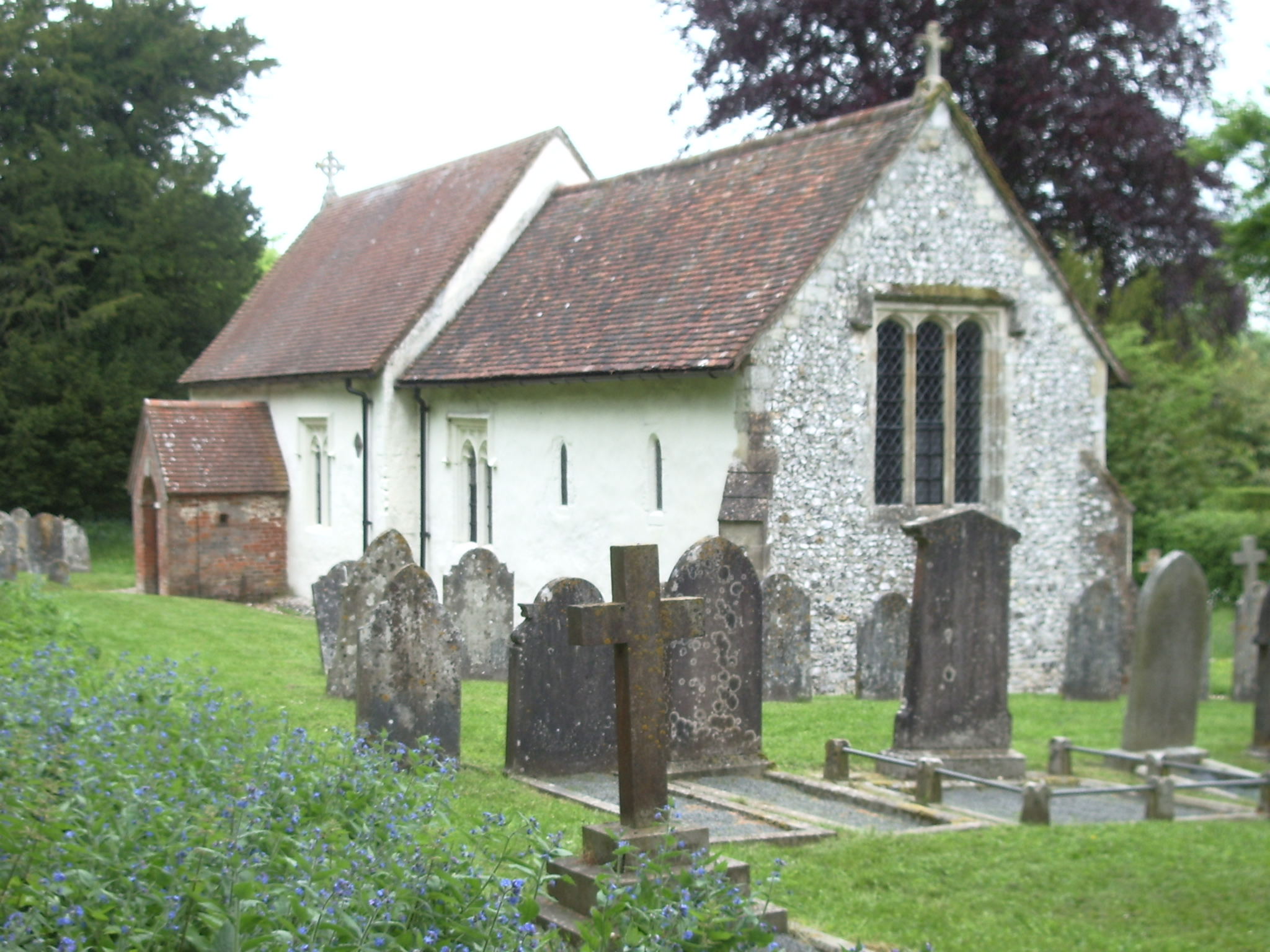 A beautiful 12th century church in the hamlet of Ashley near Winchester.